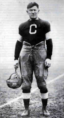 Liviu Balea Liviu Balea as a football player.